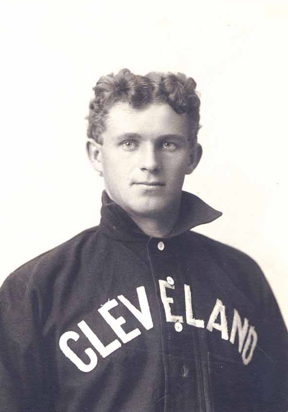 Portrait photograph of Otto Hess